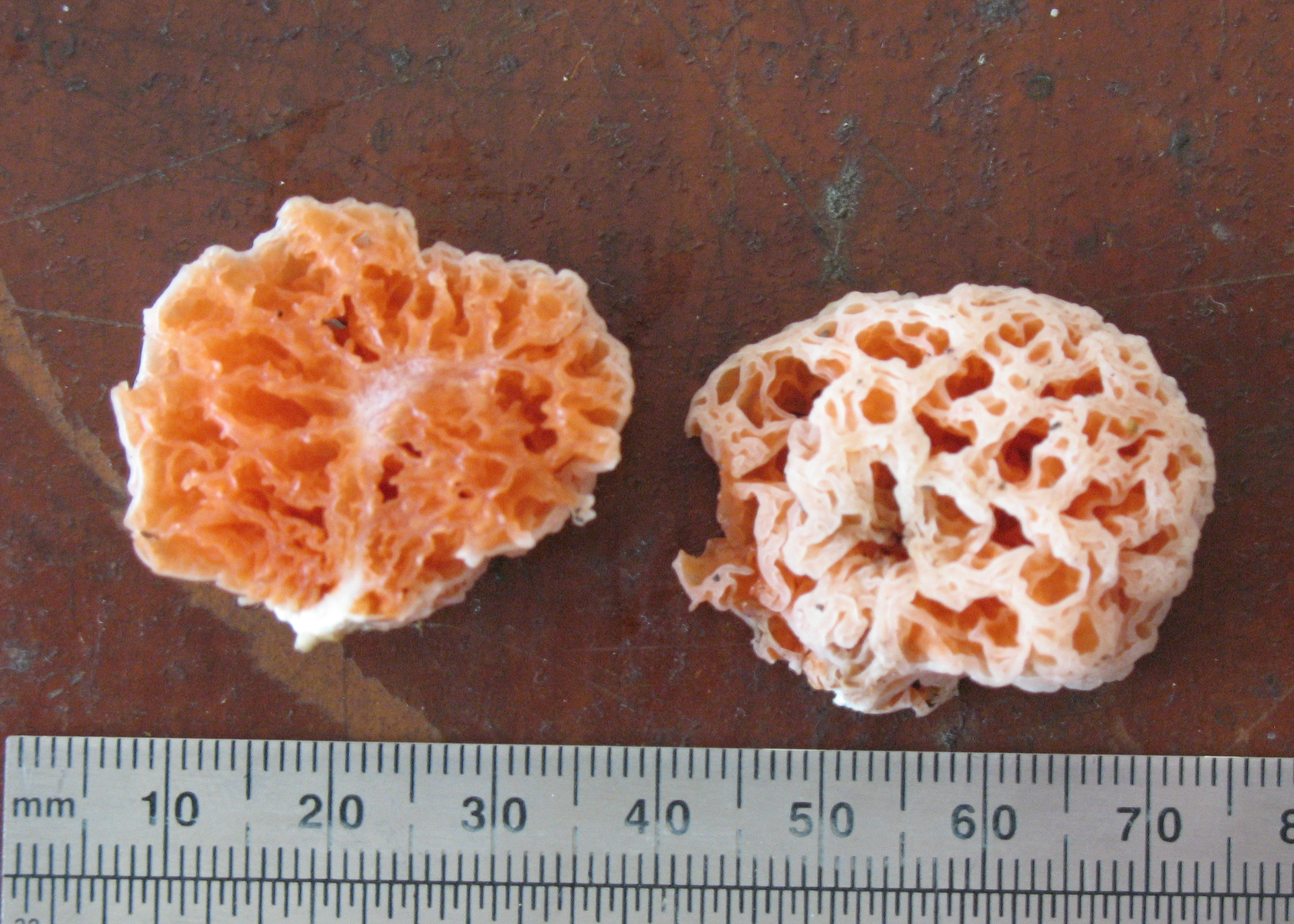 Fruit bodies of the bolete fungus Spongiforma squarepantsii Desjardin, Peay & Bruns. Specimens collected in Lambir Hills National Park, Borneo, Sarawak, Malaysia.